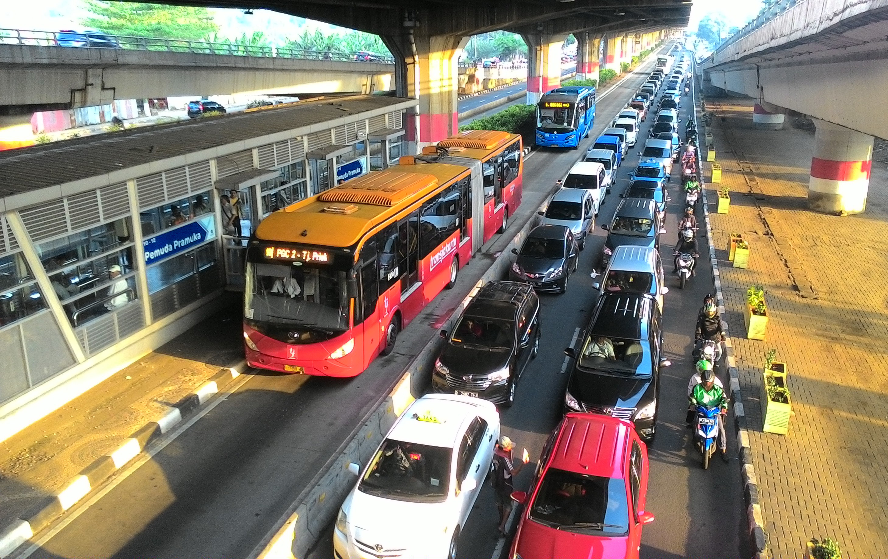 Transjakarta buses run on a dedicated line separated from traffic at Pemuda Pramuka bus stop on Jalan Ahmad Yani, East Jakarta.